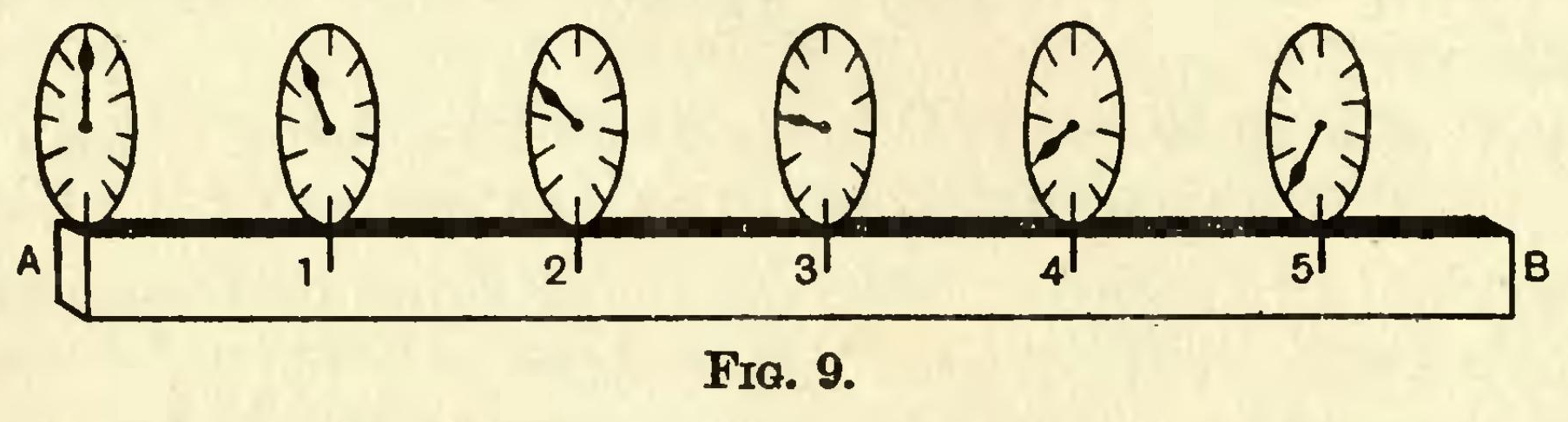 Fig. 9 from chapter III "The World of Four Dimensions".